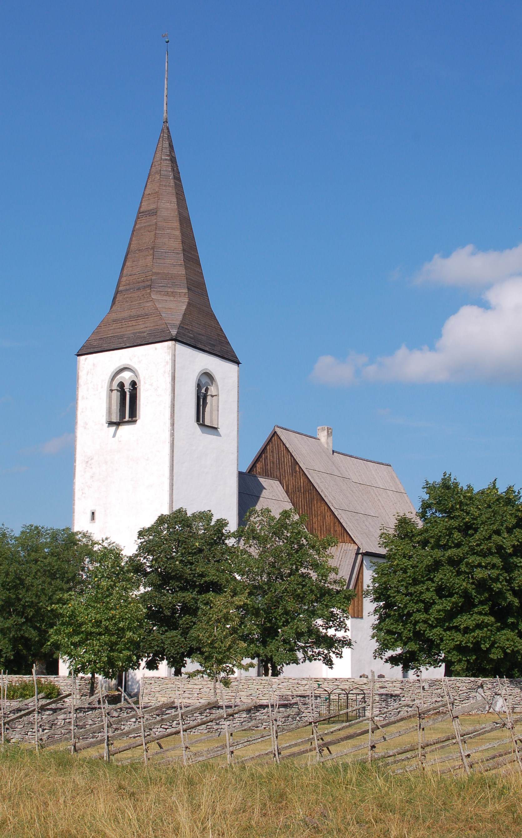 Vallstena church